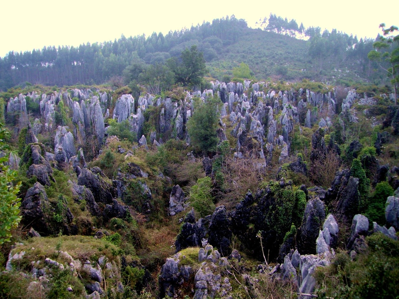 Old iron mineral mine in Monte Vizmaya, Cantabria (Spain). It supplied from mineral to the Real Factory of artillery of La Cavada